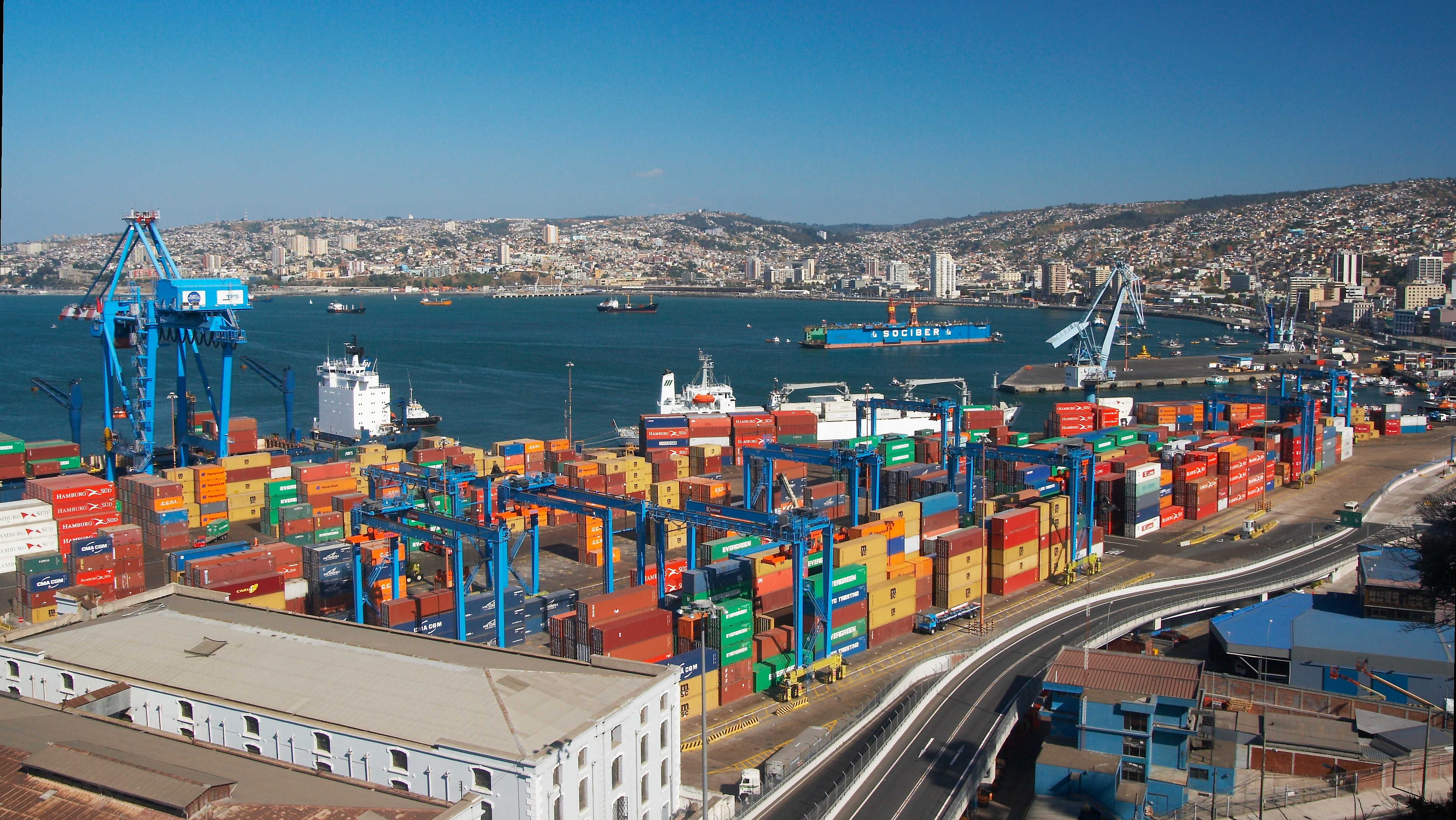 Valparaíso, Chile.